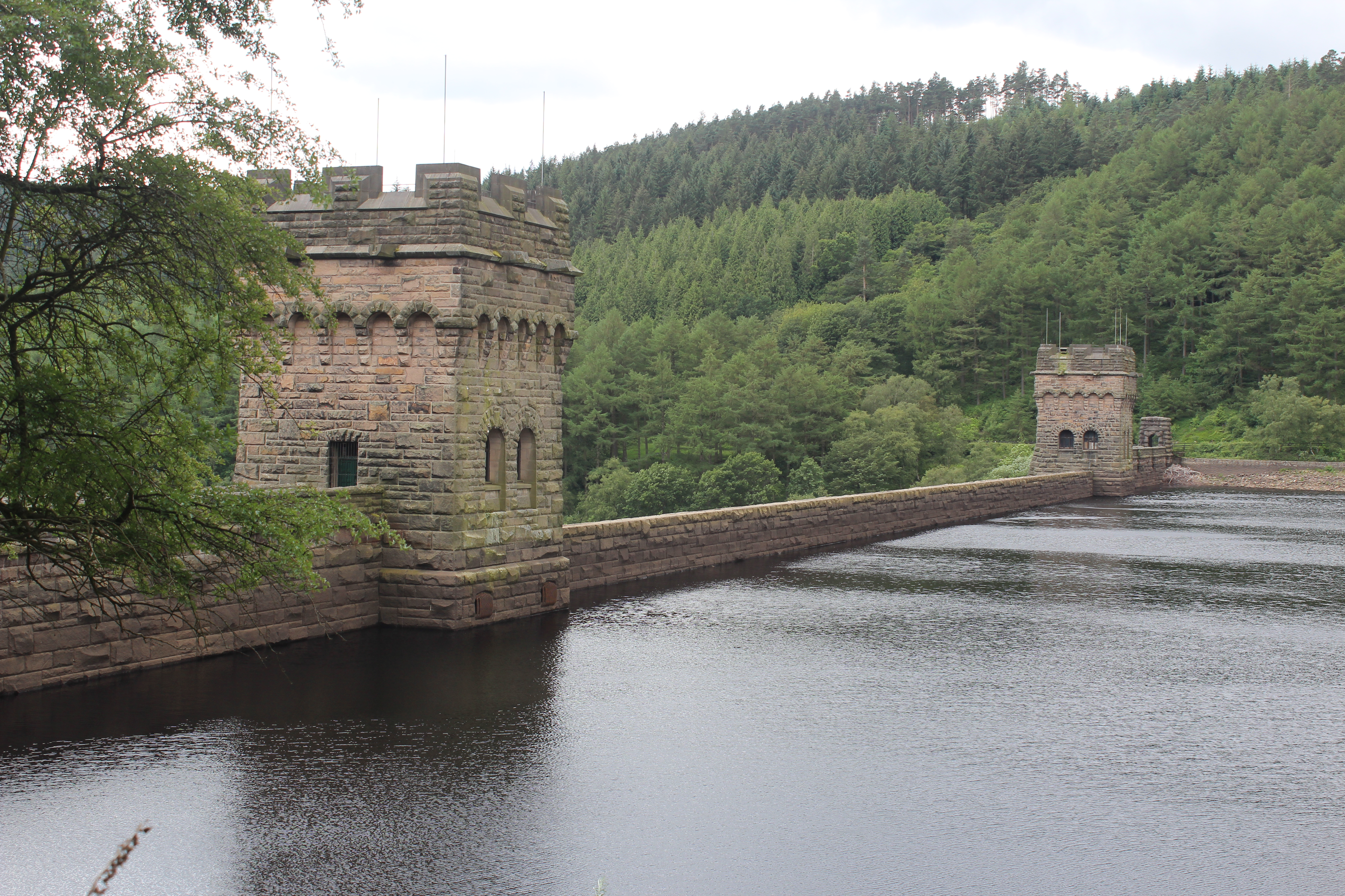 Derwent Dam taken a little upstream from the left bank. The two towers on the wall are similar to those that were on the Möhne and Edersee Dams in Germany making the Derwent Reservoir ideal for practice runs by the Royal Air Force No. 617 Squadron (the Dambusters) prior to their raid on the German dams in 1943.